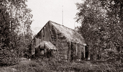 Old church of Sodankylä before renovation in the 1920s